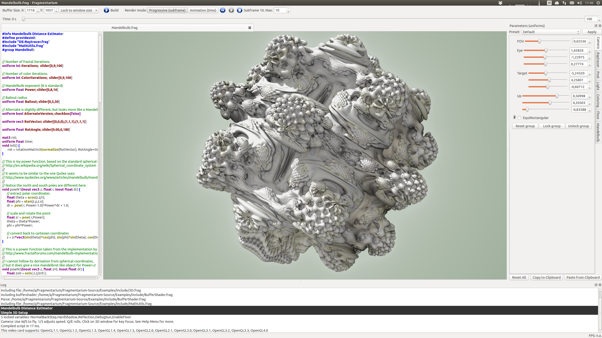 Screen shot of Fragmentarium program